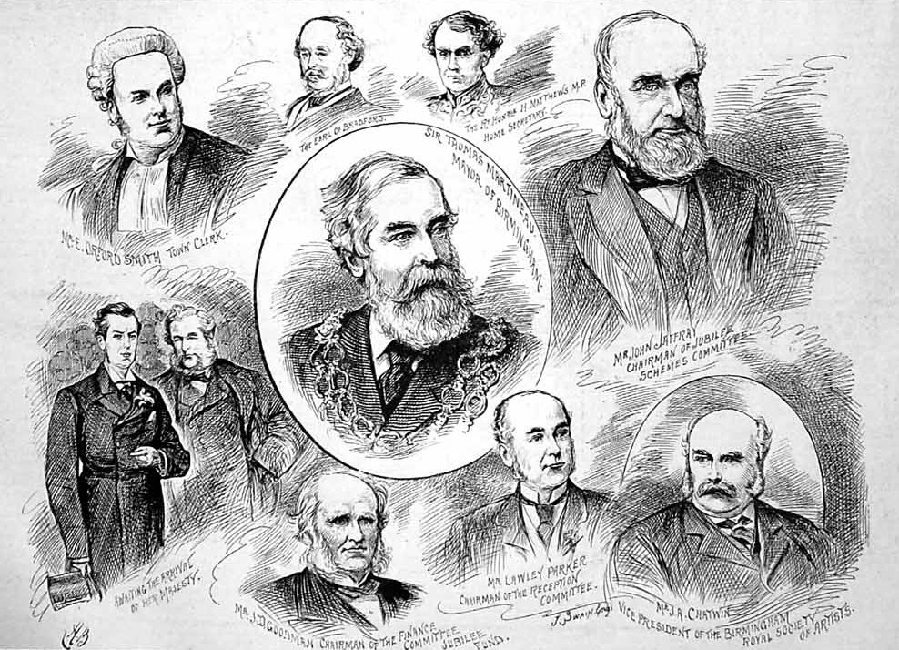 Illustration of Queen Victoria's visit to Birmingham with Sir Thomas Martineau. Mayor of Birmingham (center) 1887